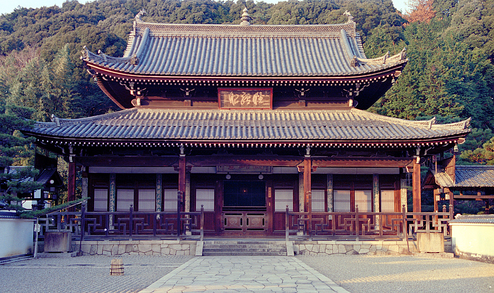 Mampukuji, an Obaku Zen Buddhist temple in Uji, Kyoto, Japan. I took this photo and contribute my rights in the file to the public domain; individuals and organizations retain rights to images in the file.